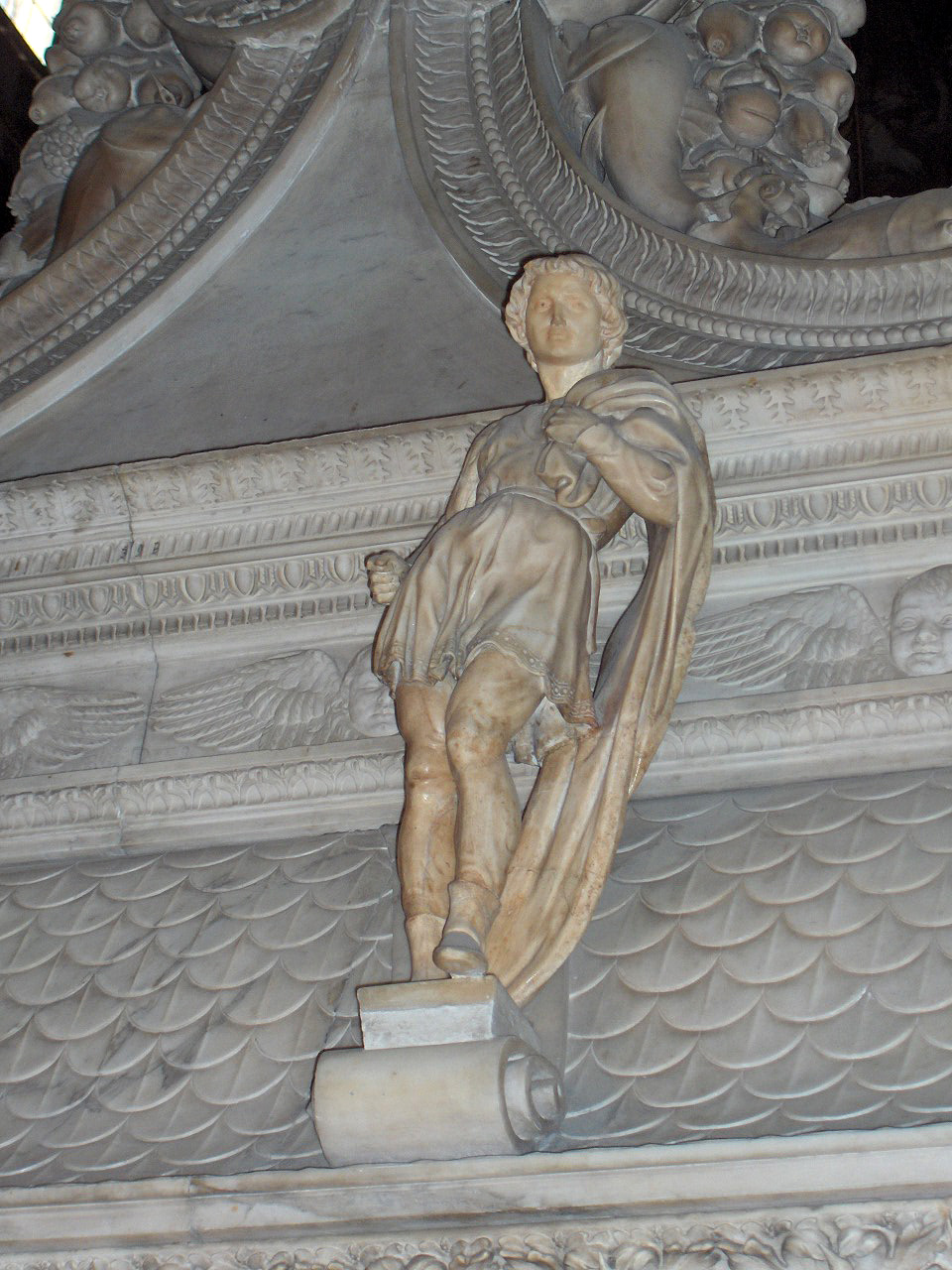 San Procolo (by Michelangelo); Ark of Saint Dominic, Basilica of Saint Dominic, Bologna, Italy